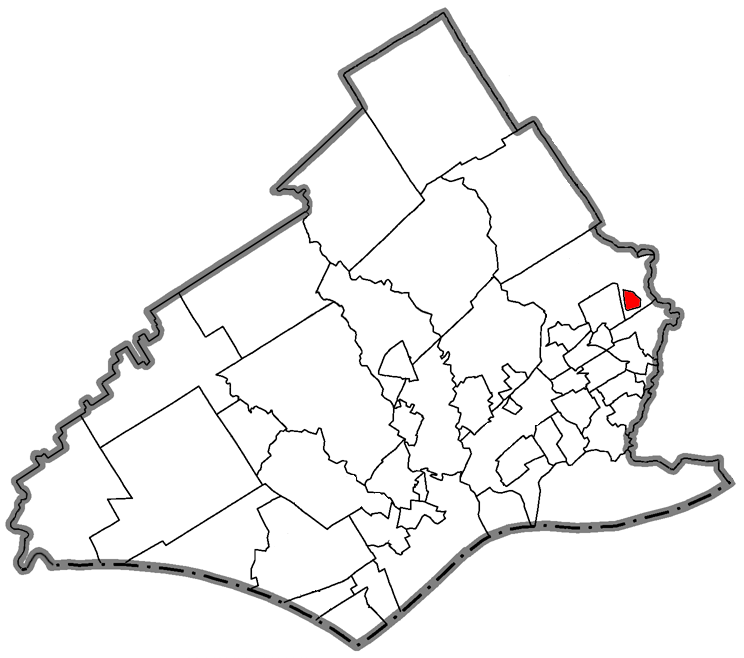 Showing the location within Delaware County, Pennsylvania.